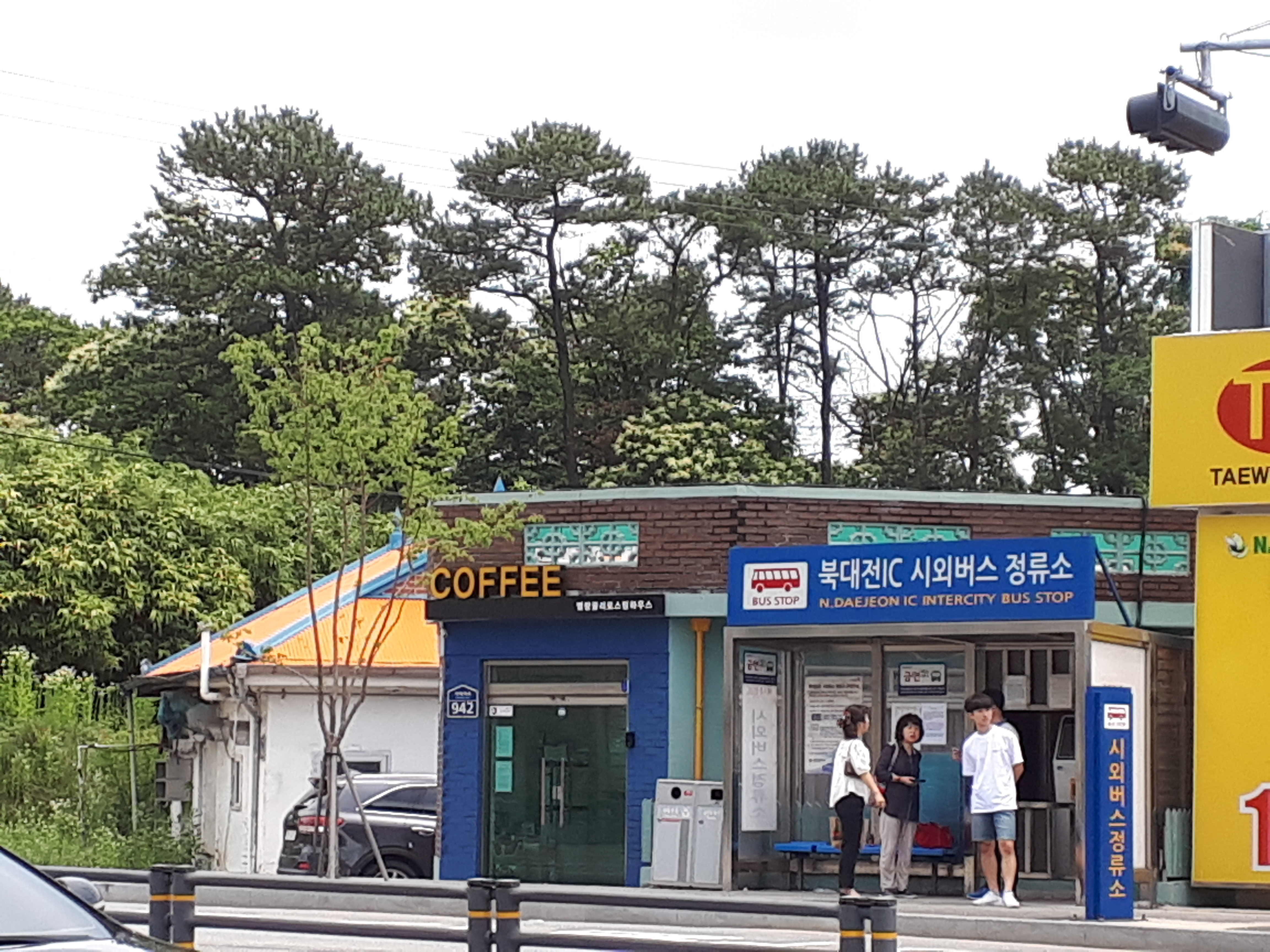 N. Daejeon IC Intercity Bus Stop